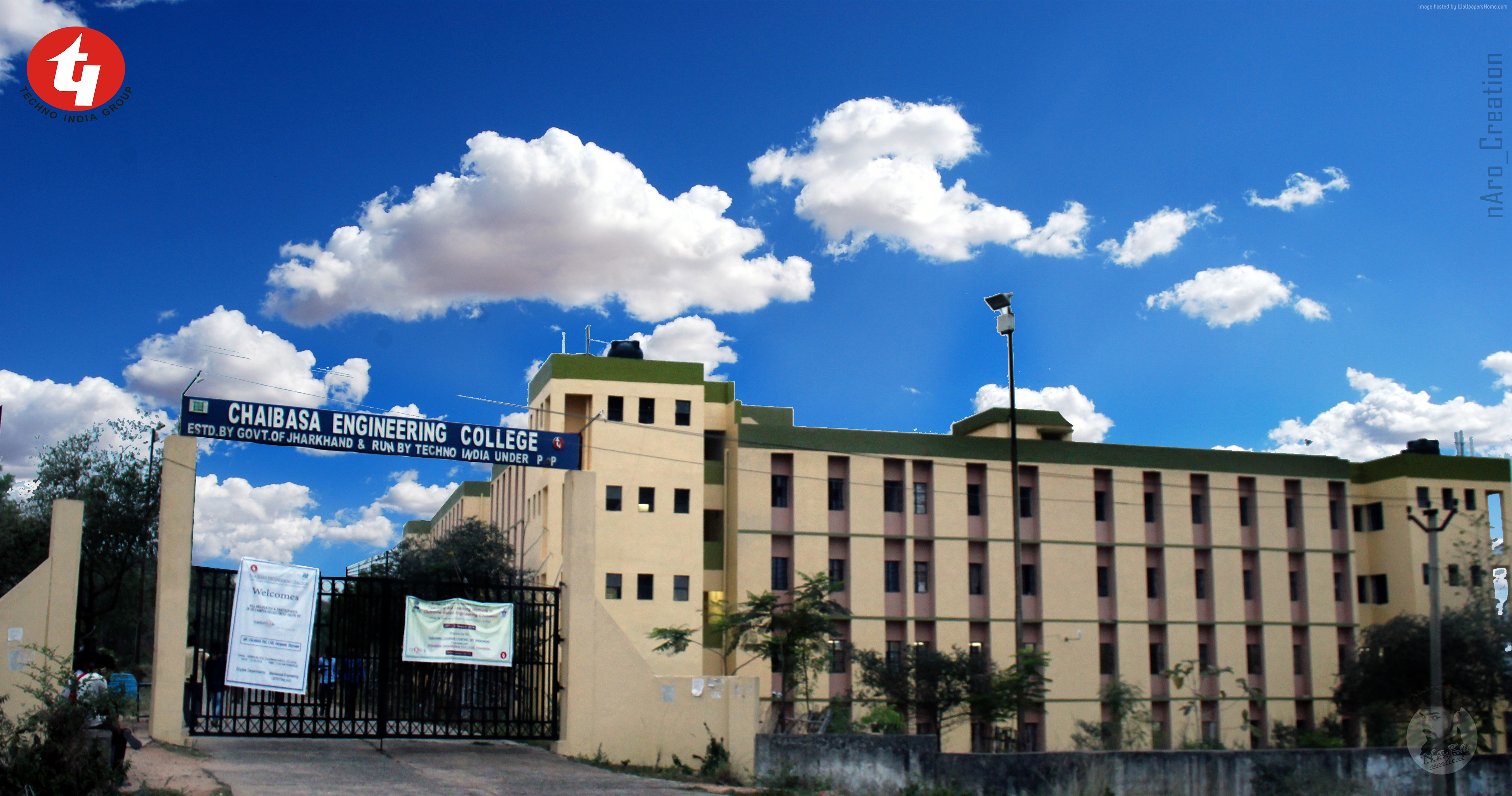 Main Gate beside 75 NH-E